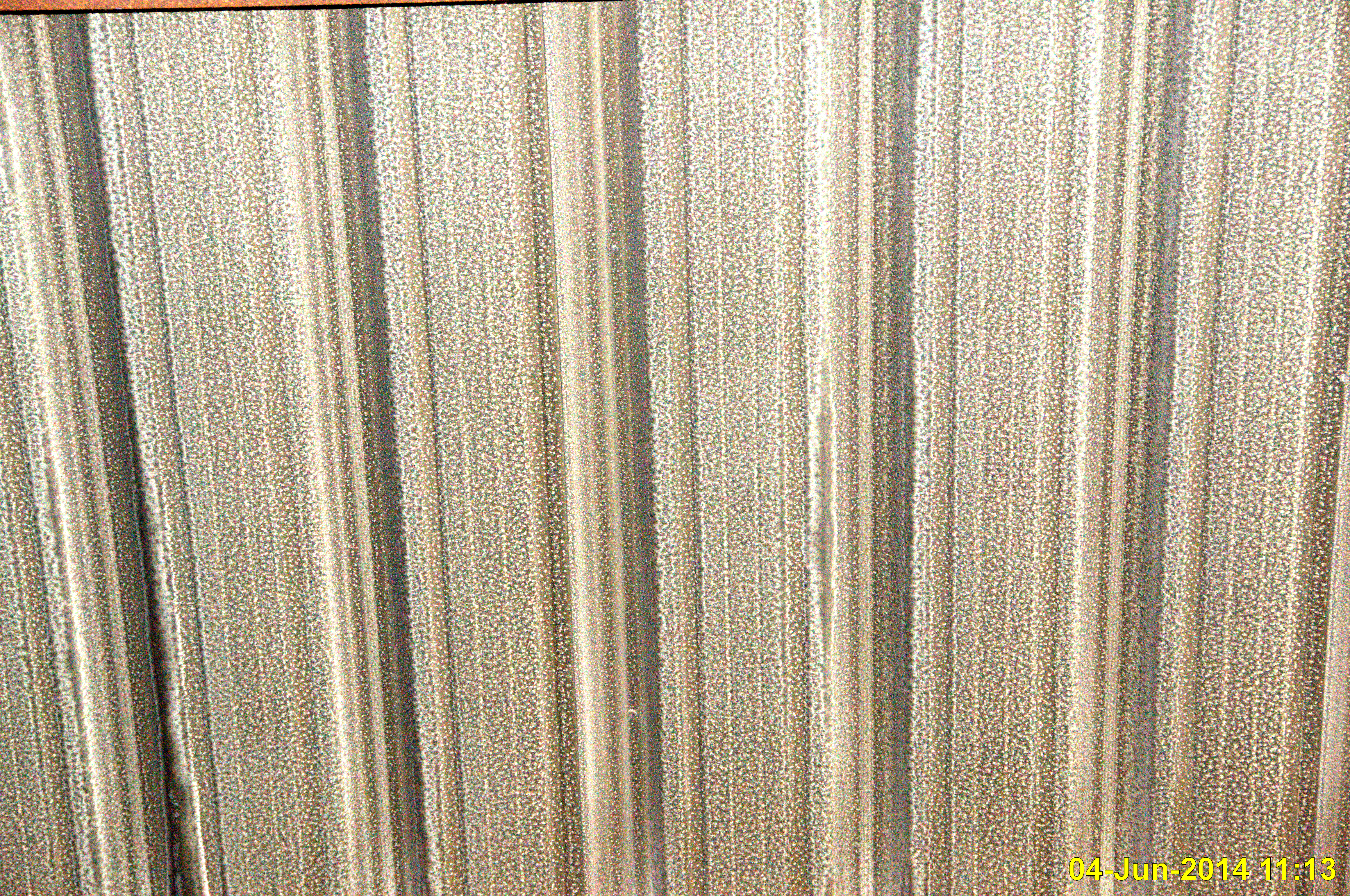 Steel Q deck.